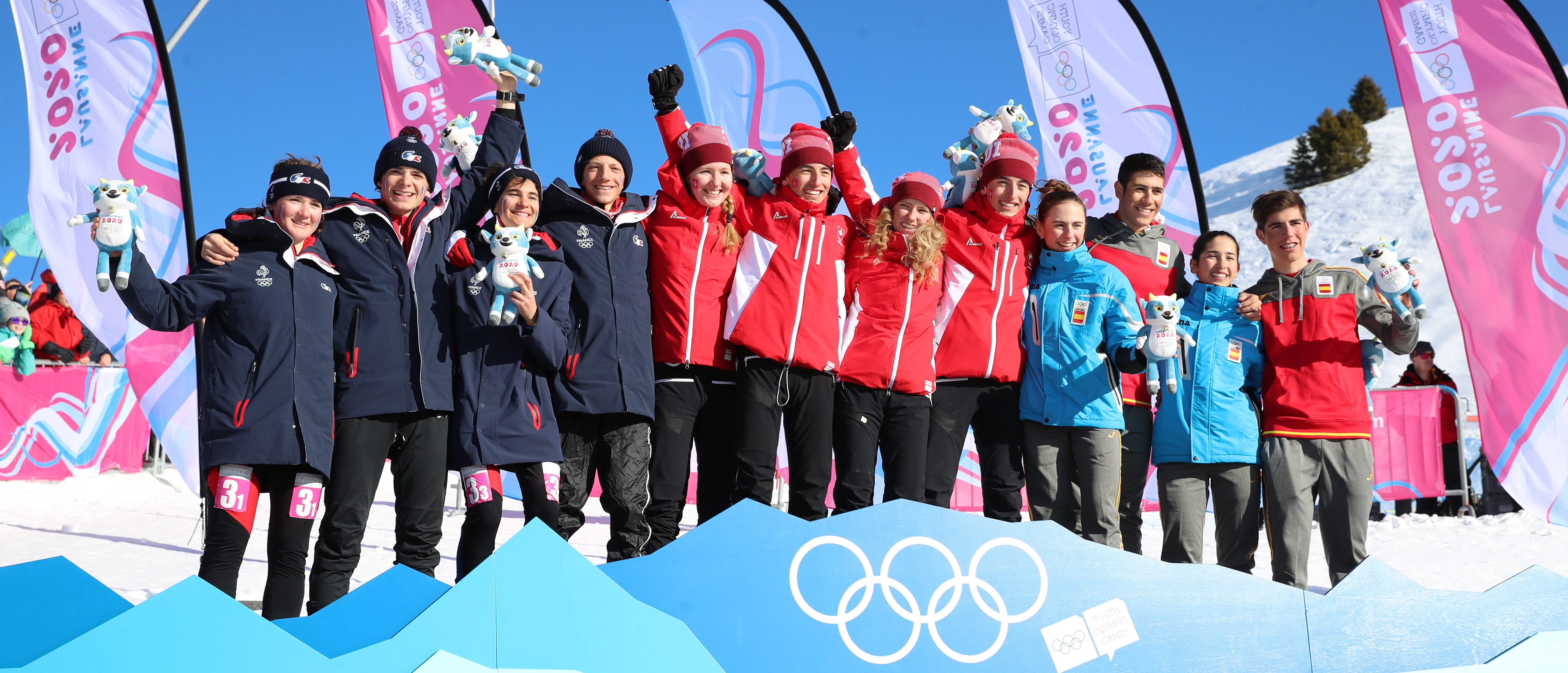 Mascot ceremony at the Ski mountaineering Mixed Relay at the 2020 Winter Youth Olympics in Lausanne